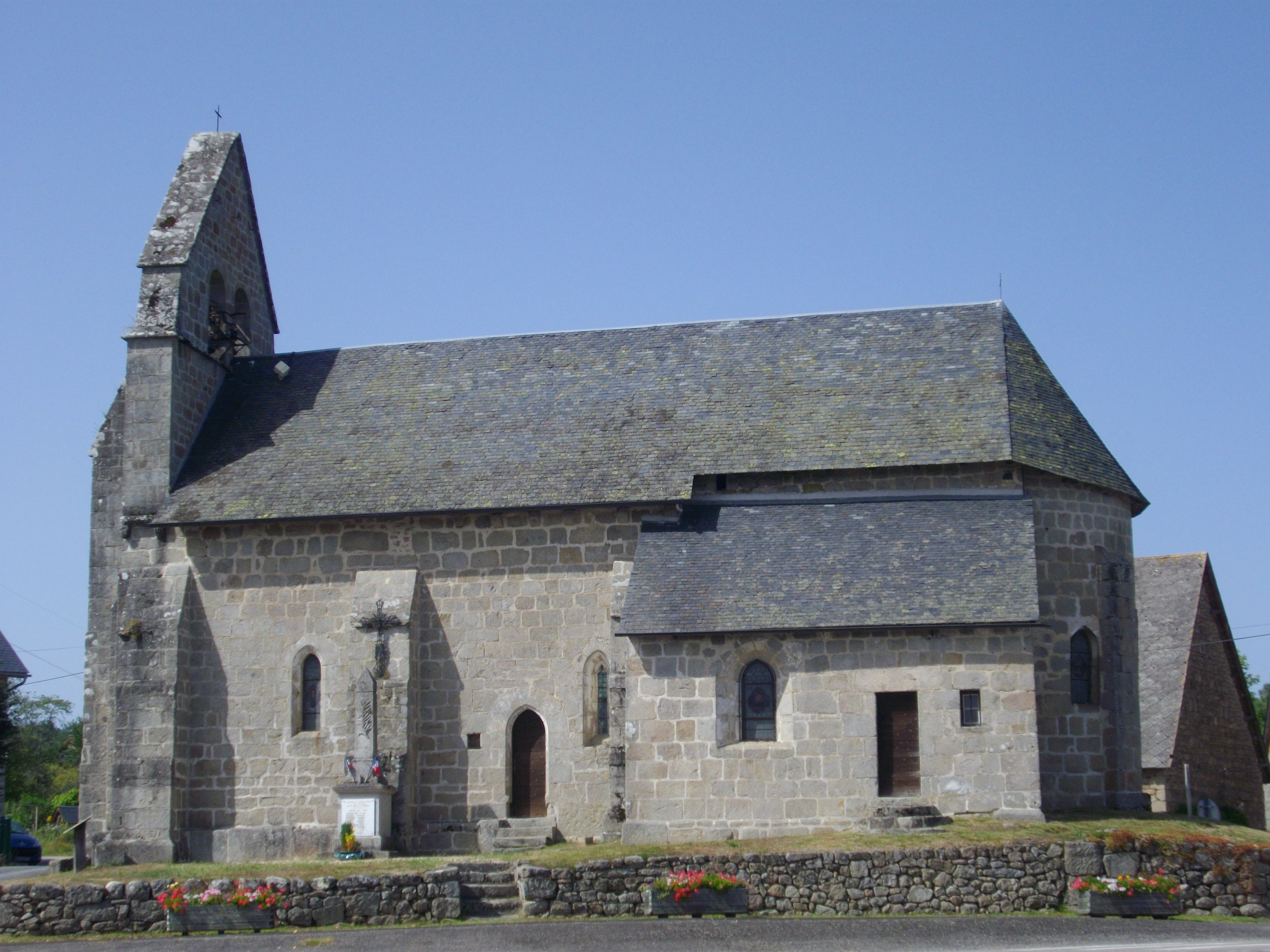 Our Lady church of Sainte-Marie-Lapanouze (Corrèze, France) .